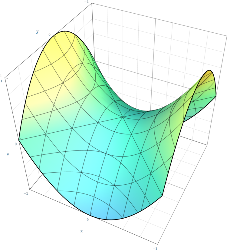 A hyperbolic paraboloid. Made with Mathematica.